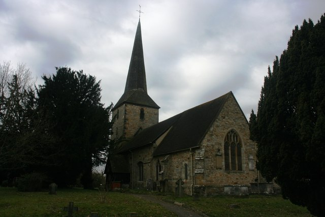 St Peter's Church, Hever